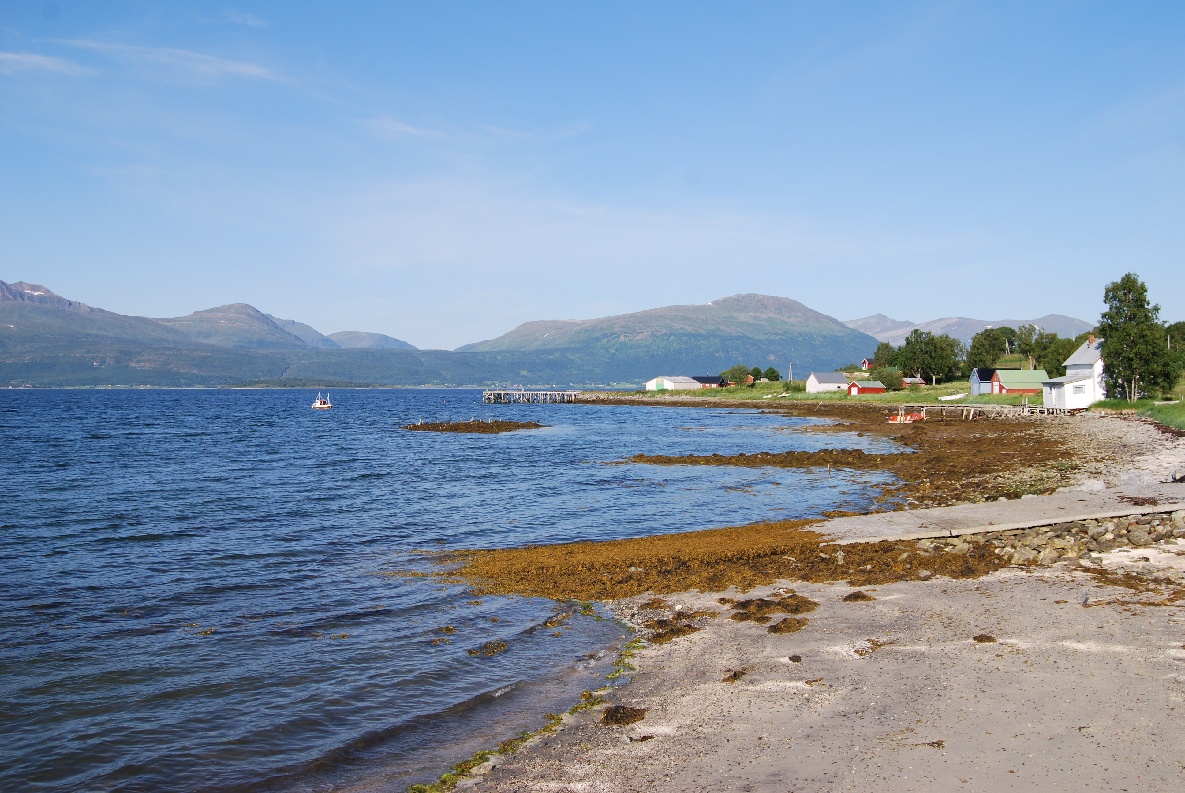 Malangen fjord, Norway. From Rossfjordnes, view northeast across Malangen towards Bakkeby and the mountain Bakkebyskolten (767 meters)